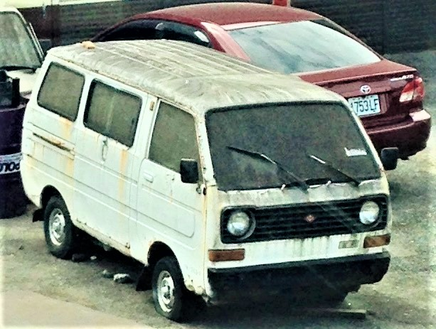 CMC Minicab van.